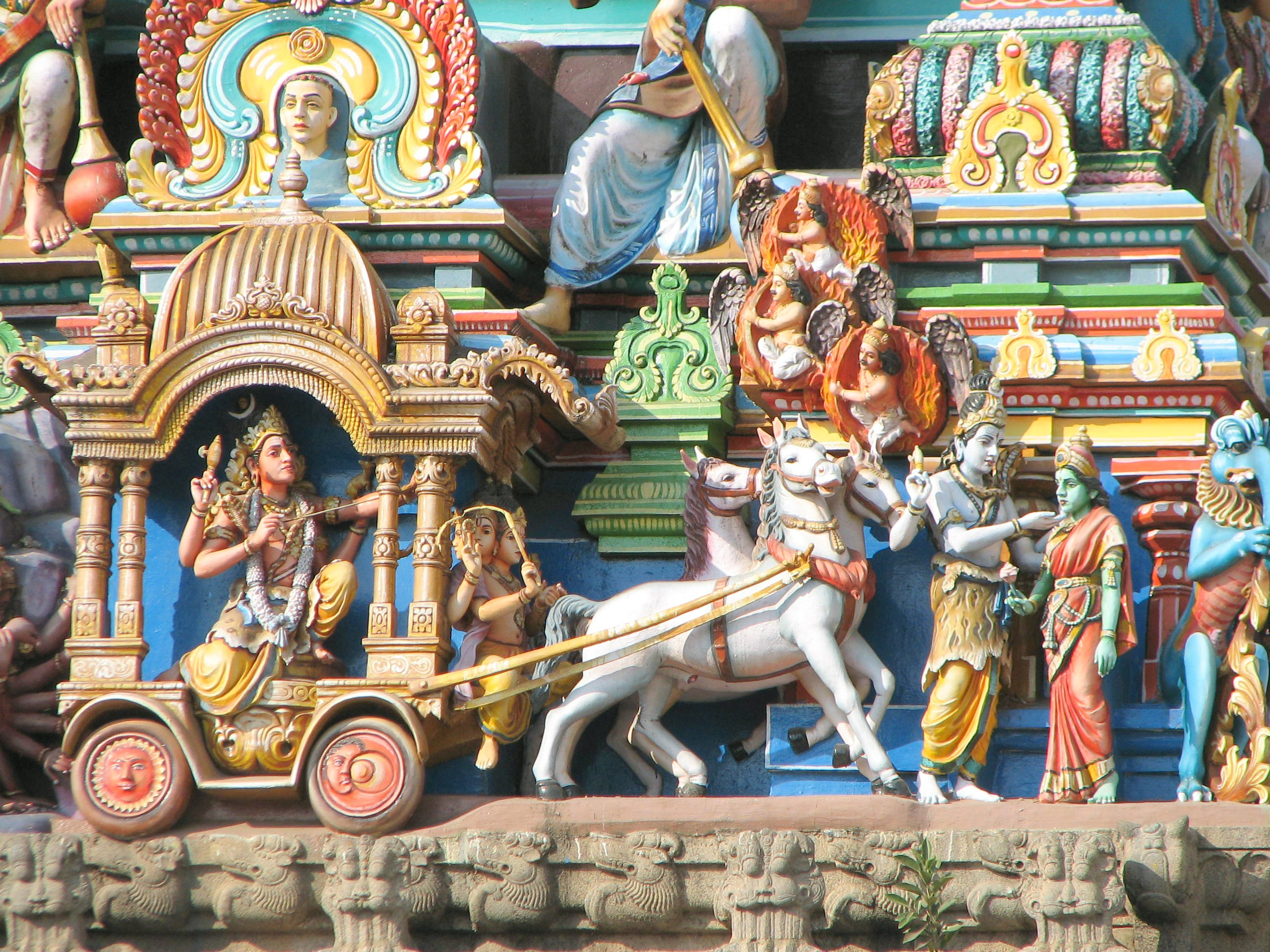 Detail of a gopuram, Chennai, India